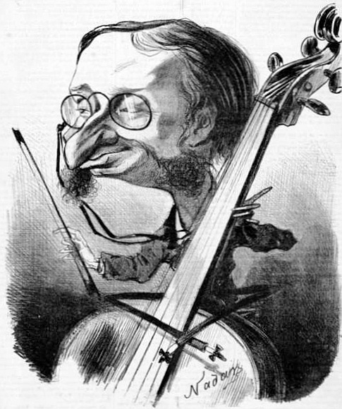 French composer Jacques Offenbach (1819-1880) by Nadar (1820-1910) after a drawing by Édouard Riou (1833–1900) Alternative names Edouard RiouDescriptionFrench illustratorDate of birth/death 2 December 1833 27 January 1900 Location of birth/death Saint-Servan ParisWork location France Authority control : Q583275 VIAF: 34726165 ISNI: 0000 0001 1815 839X ULAN: 500087013 LCCN: nr91017090 NLA: 35663386 WorldCat creator QS:P170,Q583275 .